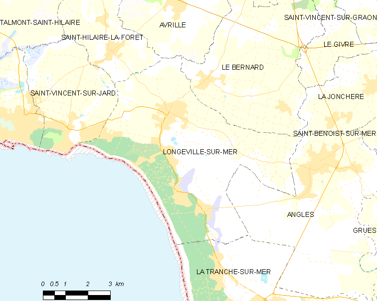 Map of French municipality Longeville-sur-Mer